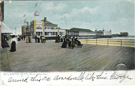 Steel Pier in Atlantic City, New Jersey